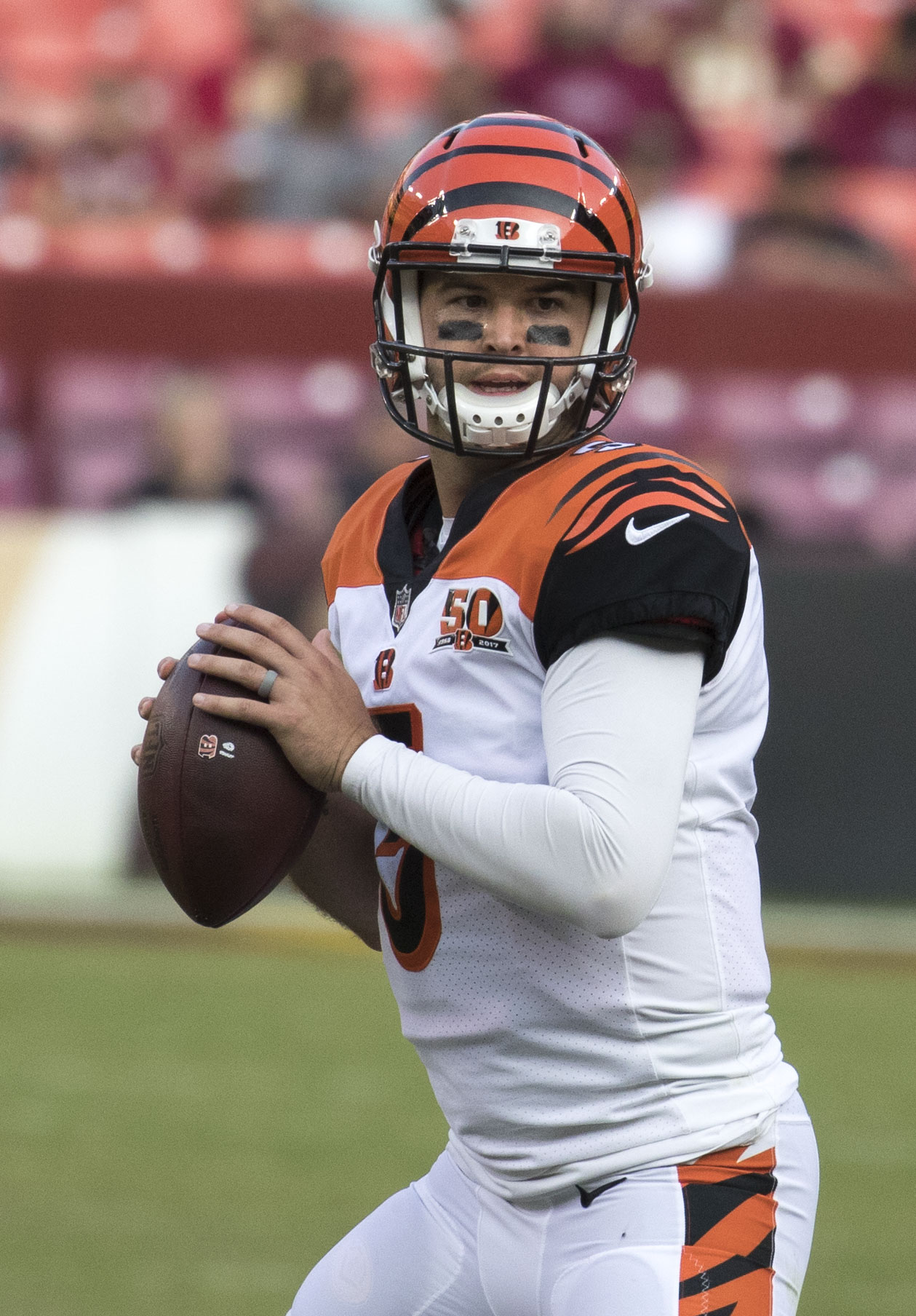 Cincinnati Bengals quarterback, AJ McCarron, playing against the Washington Redskins in a preseason game on August 27, 2017.